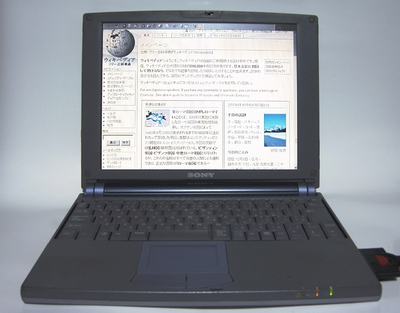 Personal Computer Vaio_505GX bySony Japan